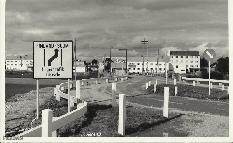 Finland-Sweden border in Tornio, Finland